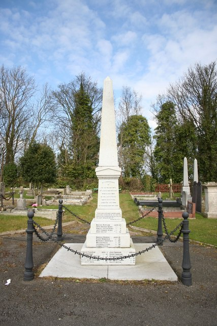 Great Flood Memorial Memorial in Louth cemetery In Remembrance of the 23 inhabitants of Louth and District who passed away in the Great Flood which devastated a part of the town on Saturday May 29th 1920. I am come into deep waters where the floods overflow me, let not the water flood overwhelm me, neither let the deep swallow me up. Psalm 69, 2 & 15 Amongst the dead were 3 children under 5 from the Berry family